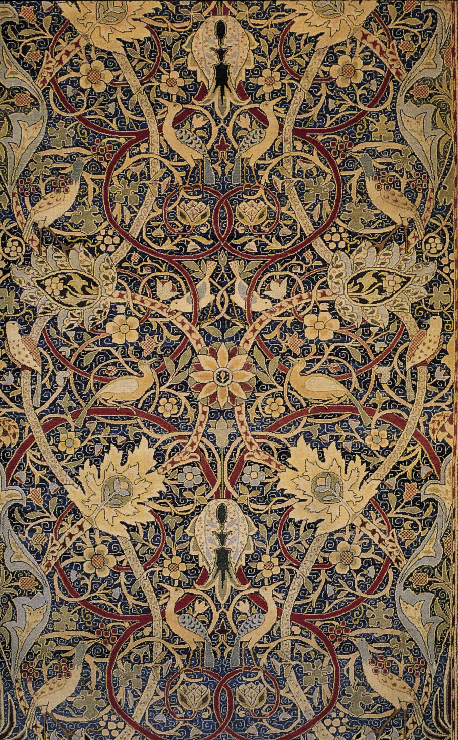 Detail of the Bullerswood carpet designed by William Morris and John Henry Dearle. (Identification from Linda Parry, William Morris Textiles, New York, Viking Press, 1983, ISBN 0-670-77074-4, p.91-97)